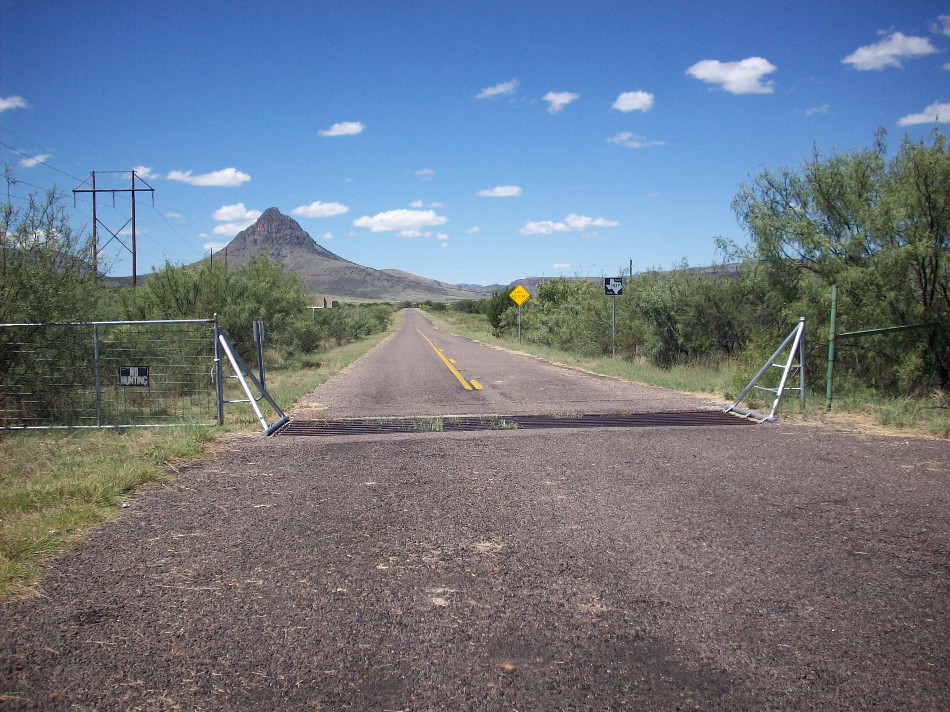 Eastern terminus of Ranch to Market Road 1837 at Texas State Highway 118 in Jeff Davis County. Mountain in background is Mitre Peak